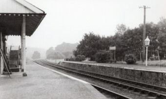 Digital photo of an older black and white print. From Wikipedia page: "Hatherleigh Railway Station was a station on the North Devon and Cornwall Junction Light Railway between Torrington and Halwill Junction, serving the town of Hatherleigh. Hatherleigh was the largest place with a station on the line, though the town was almost two miles away. Like others on this line, the station itself was small but it was a passing place on the mainly single-track railway. The stationmaster at Hatherleigh also looked after the other stations on the line, even those, such as Petrockstow and Hole, that were staffed."